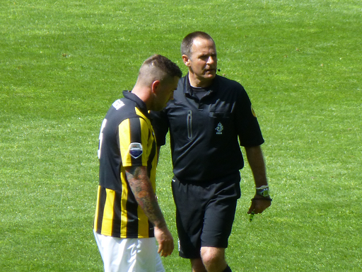 Referee Ruud Bossen with Vitesse's Theo Janssen during Eredivisie Match Vitesse - VVV-Venlo on May 12th 2013 in Gelredome